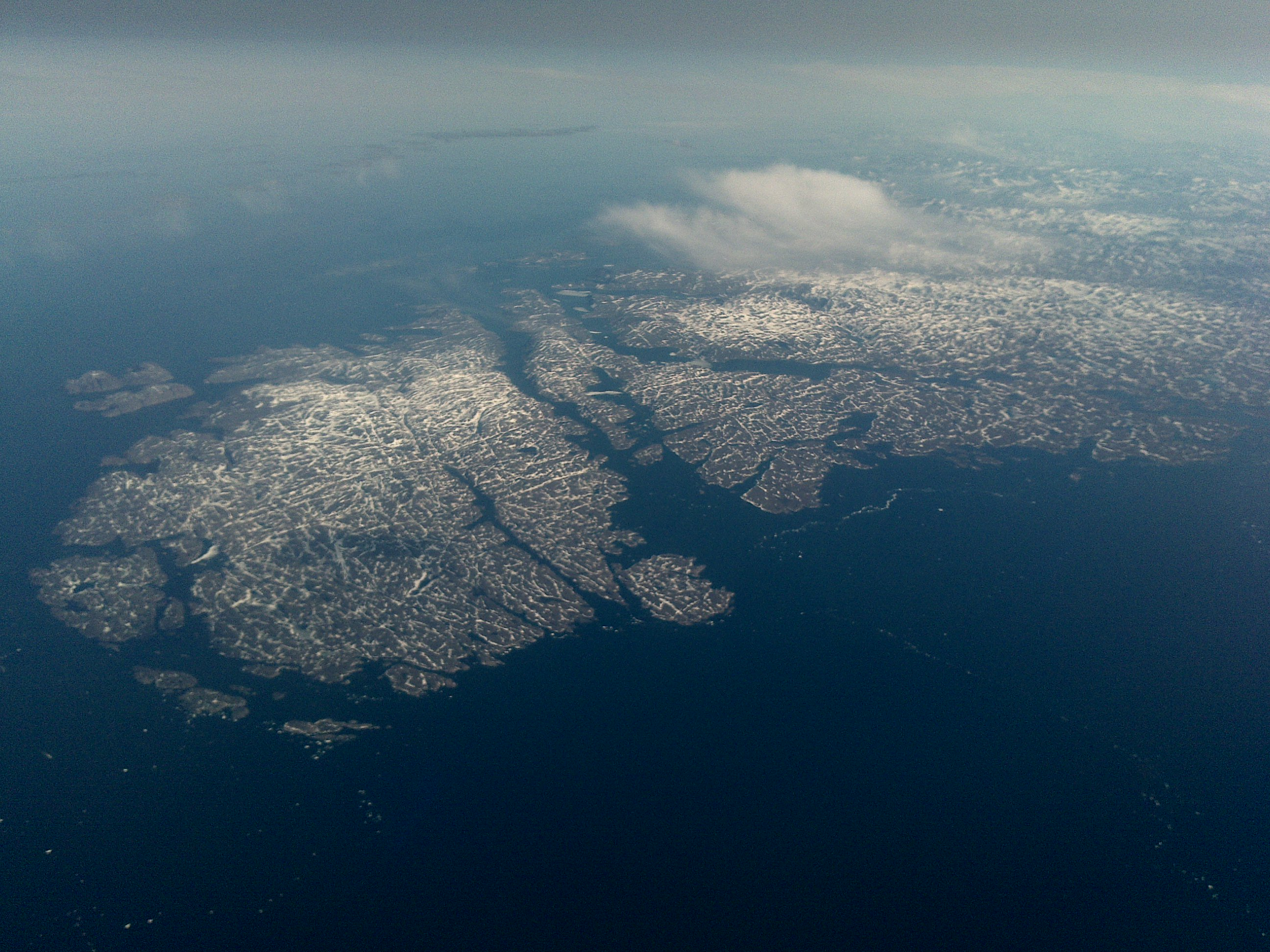 Killiniq Island, off Labrador's northern tip, in july. Photo shot from Icelandair route carrier.